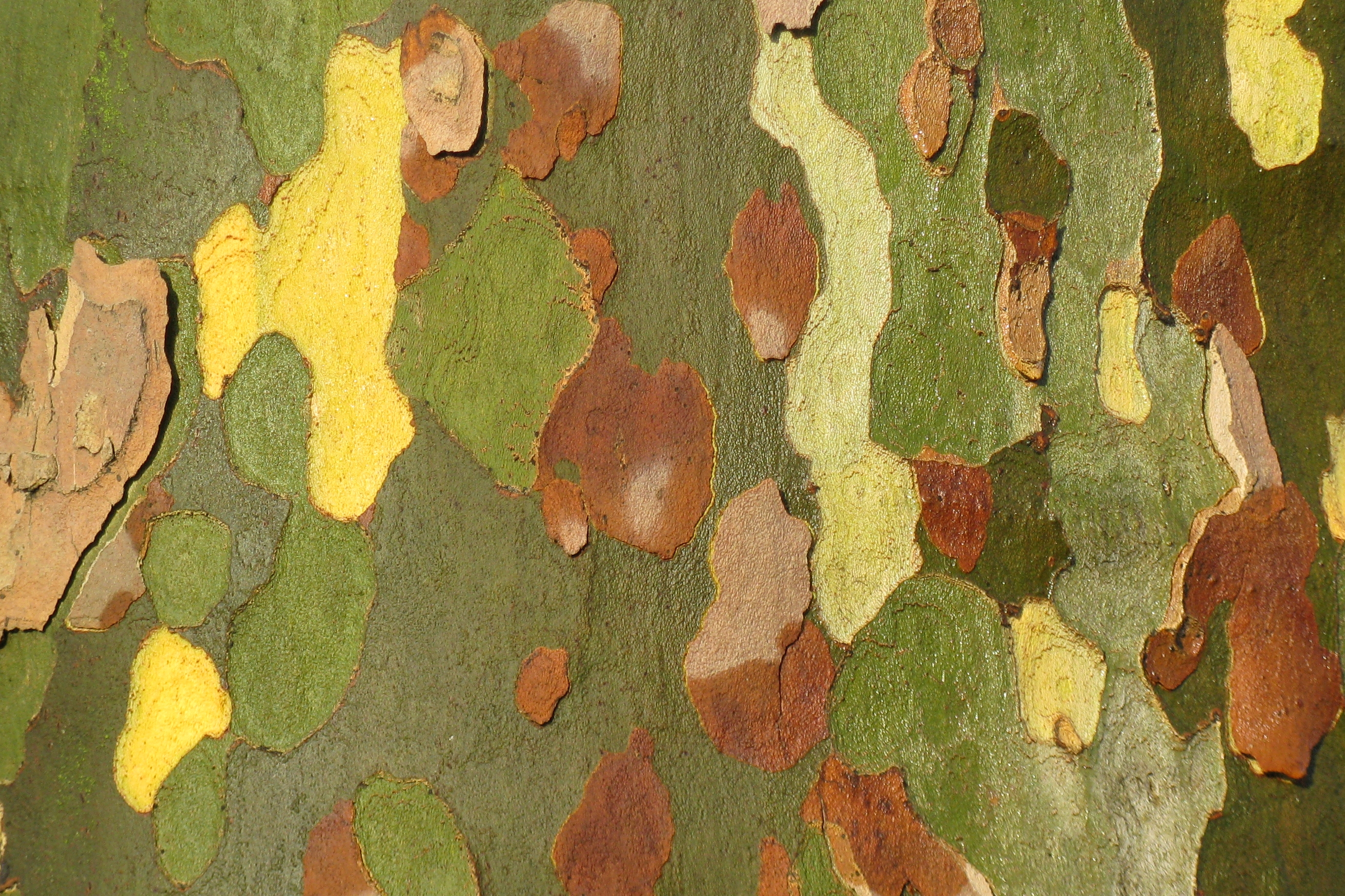 Platanus x hispanica part of trunk in wintersun